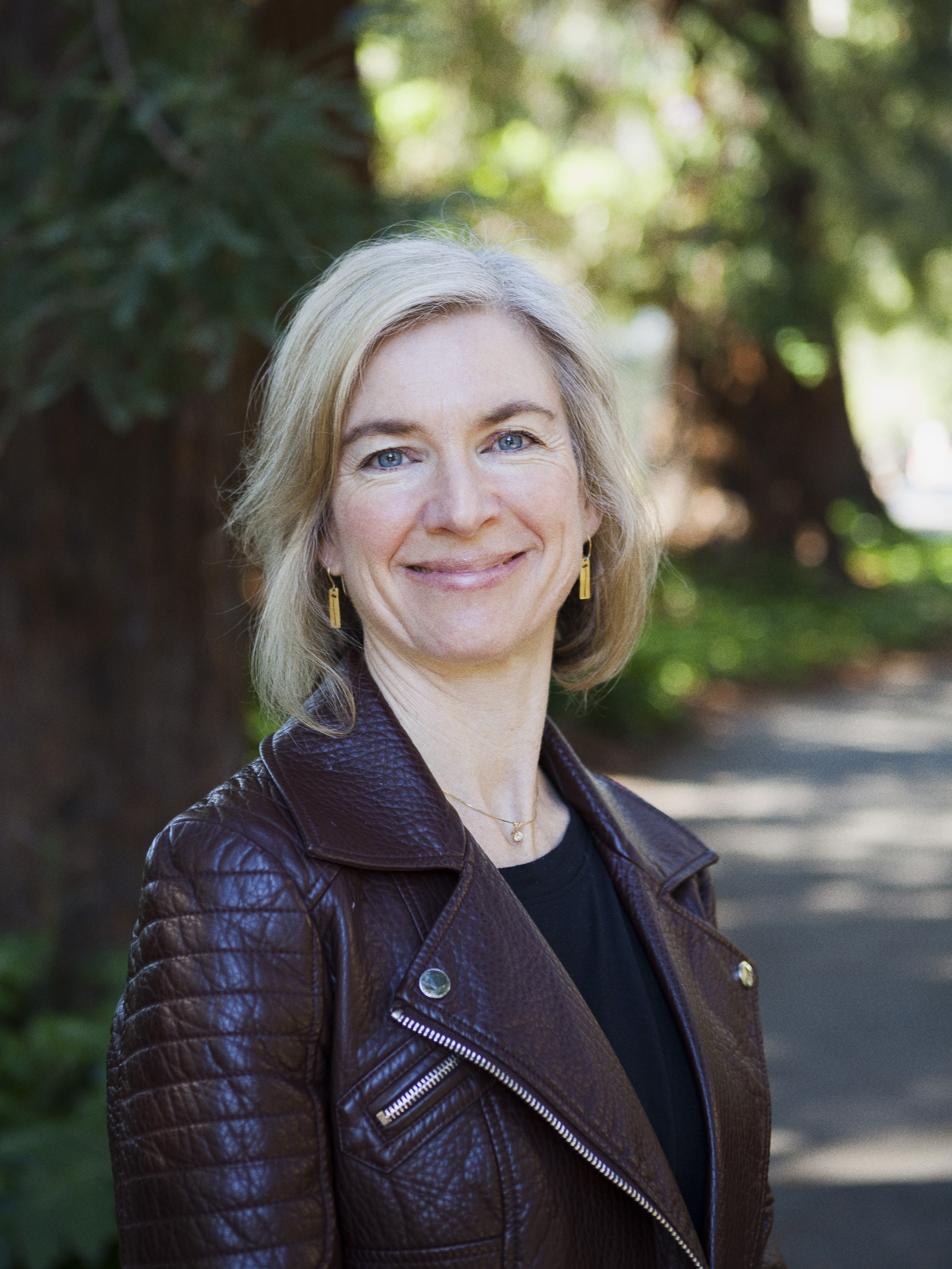 Jennifer Doudna, hoogleraar biomedische wetenschappen, University of California, Berkeley (Verenigde Staten), krijgt de Dr. H.P. Heinekenprijs voor de Biochemie en Biofysica 2016 voor haar baanbrekende onderzoek naar de structuur en de werking van RNA-moleculen en RNA-eiwit-complexen. Bij gebruik van de foto's is naamsvermelding van de fotograaf verplicht: Jussi Puikkonen/KNAW. = Jennifer Doudna, Professor of Biomedical Sciences at the University of California, Berkeley (US), will receive the 2016 Dr H.P. Heineken Prize for Biochemistry and Biophysics for her pioneering research into the structure and functioning of RNA molecules and RNA protein complexes. Re-use of these photographs must be accompanied by proper attribution: Jussi Puikkonen/KNAW